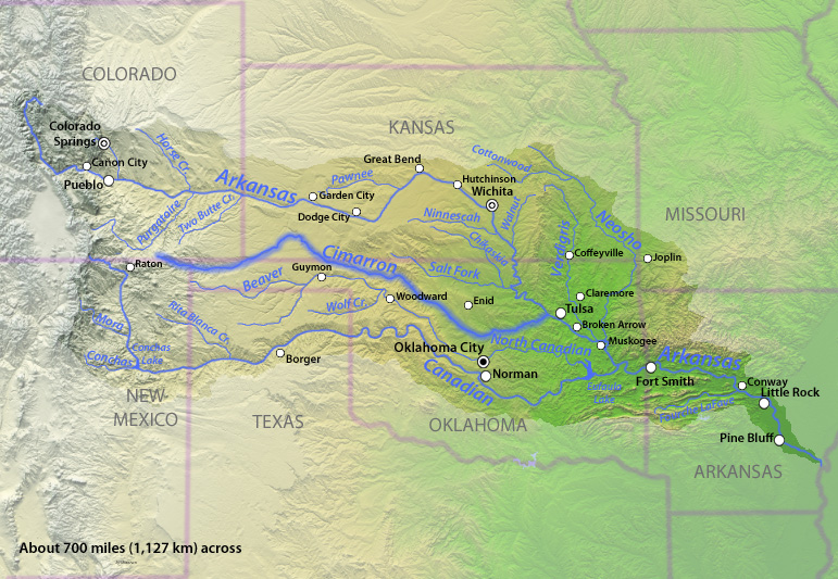 Map of the Arkansas River basin in the south-central United States with the tributary Cimarron River highlighted